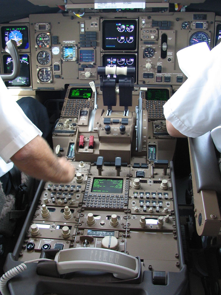 Cockpit of Boeing 767 airliner. Picture taken just after takeoff.